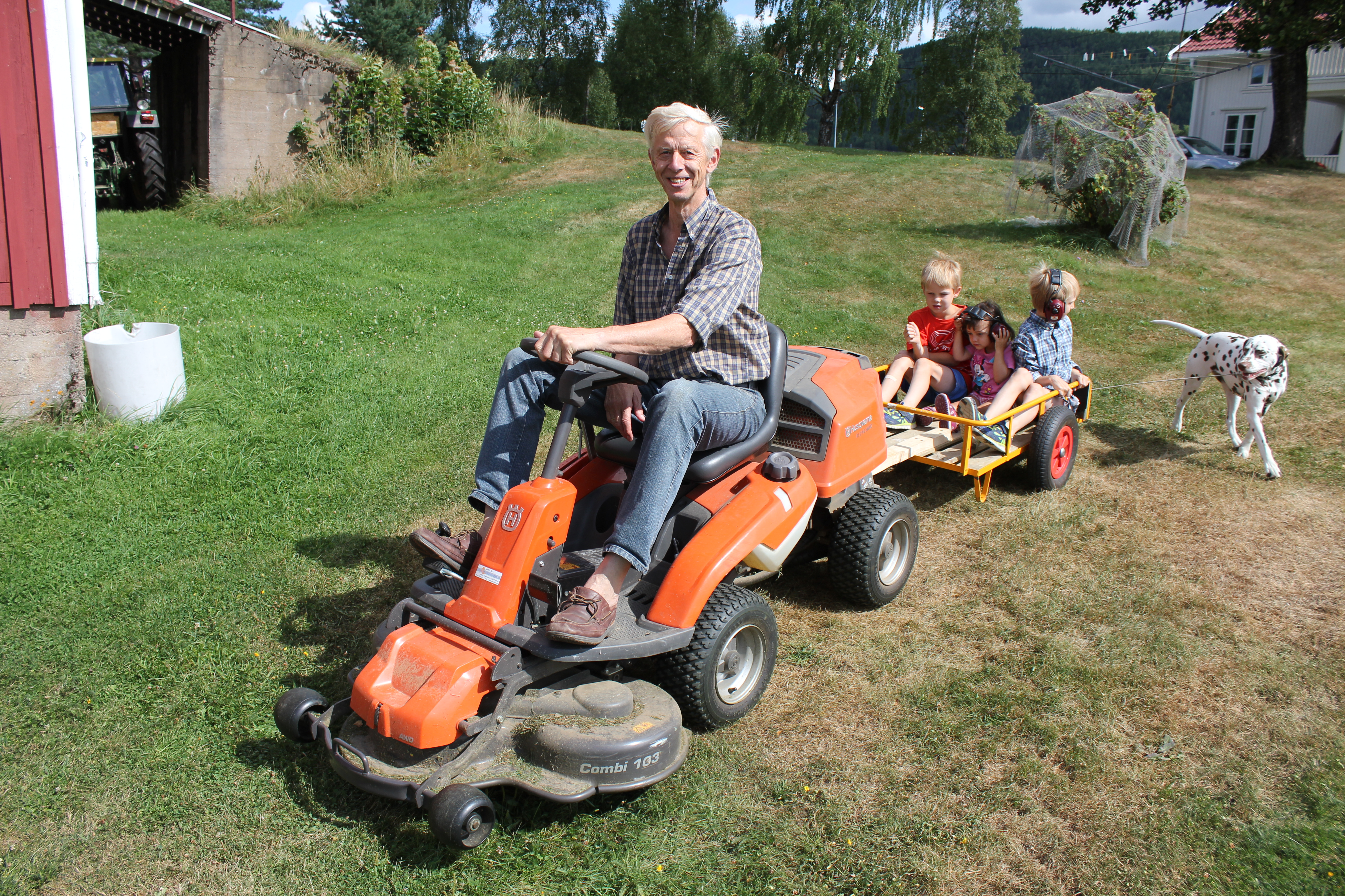 Lawn mover with trailer